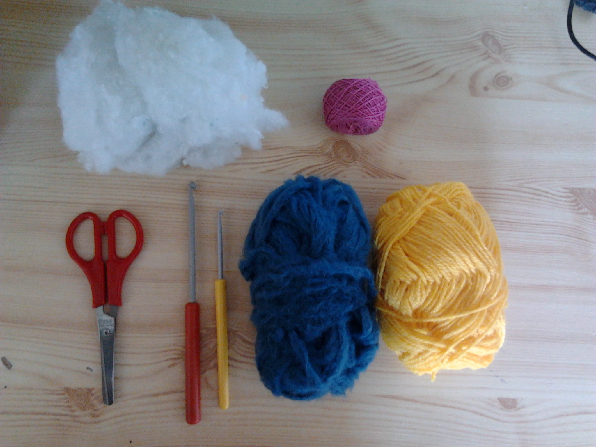 Crochet equipment